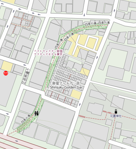 Map of estates in and around the Shinjuku Golden Gai entertainment district. The difference in estate size in and around Golden Gai is striking.